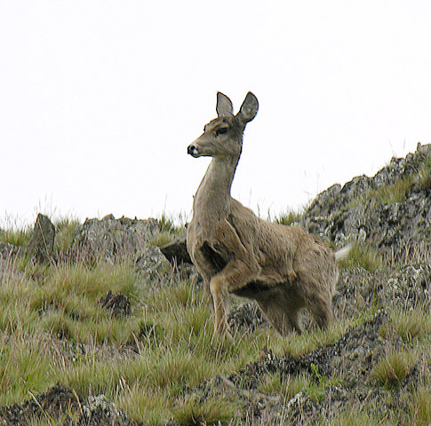 Taruca or Huemul Andino, a rare encounter high in the ranges of the Famatima area, La Rioja Province of Argentina. In context at